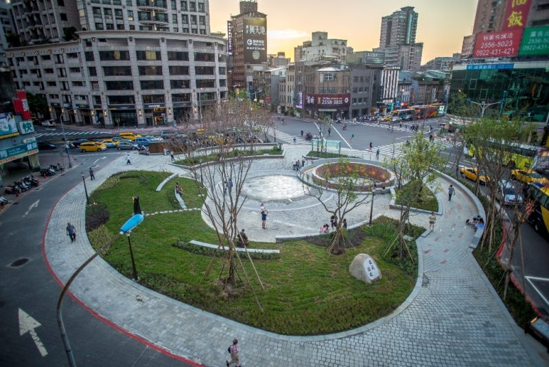 Roundabout at day